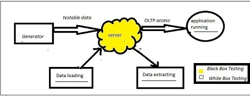 Role of Blackbox testing and whitebox testing in database testing.